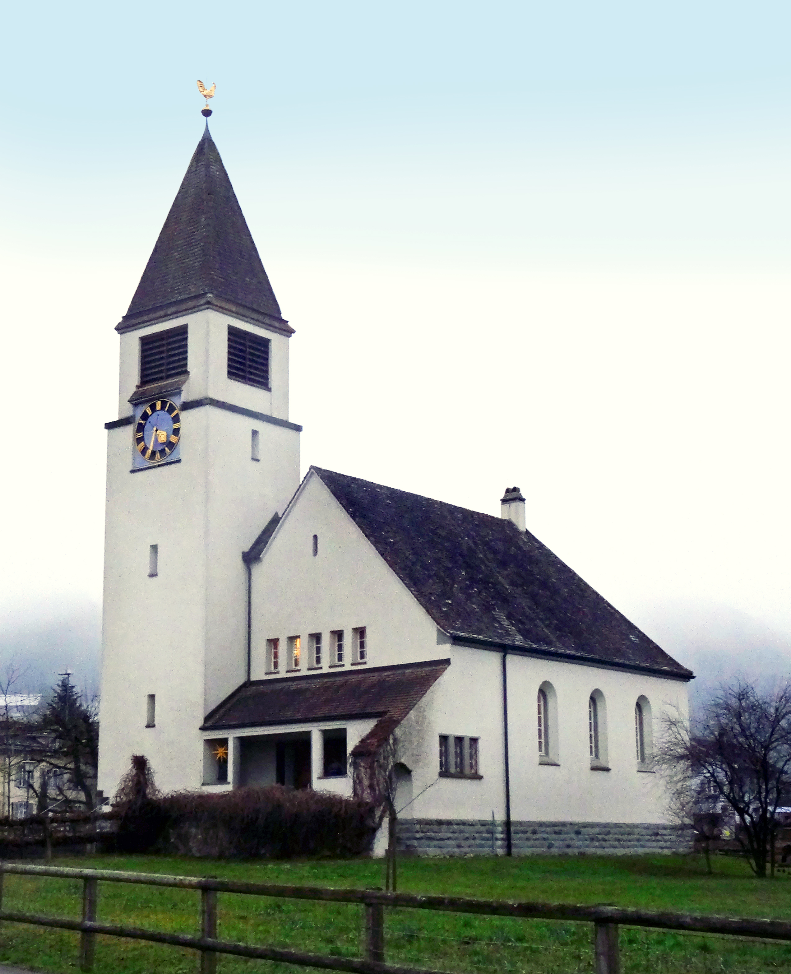 Protestant church of Mammern, Switzerland.